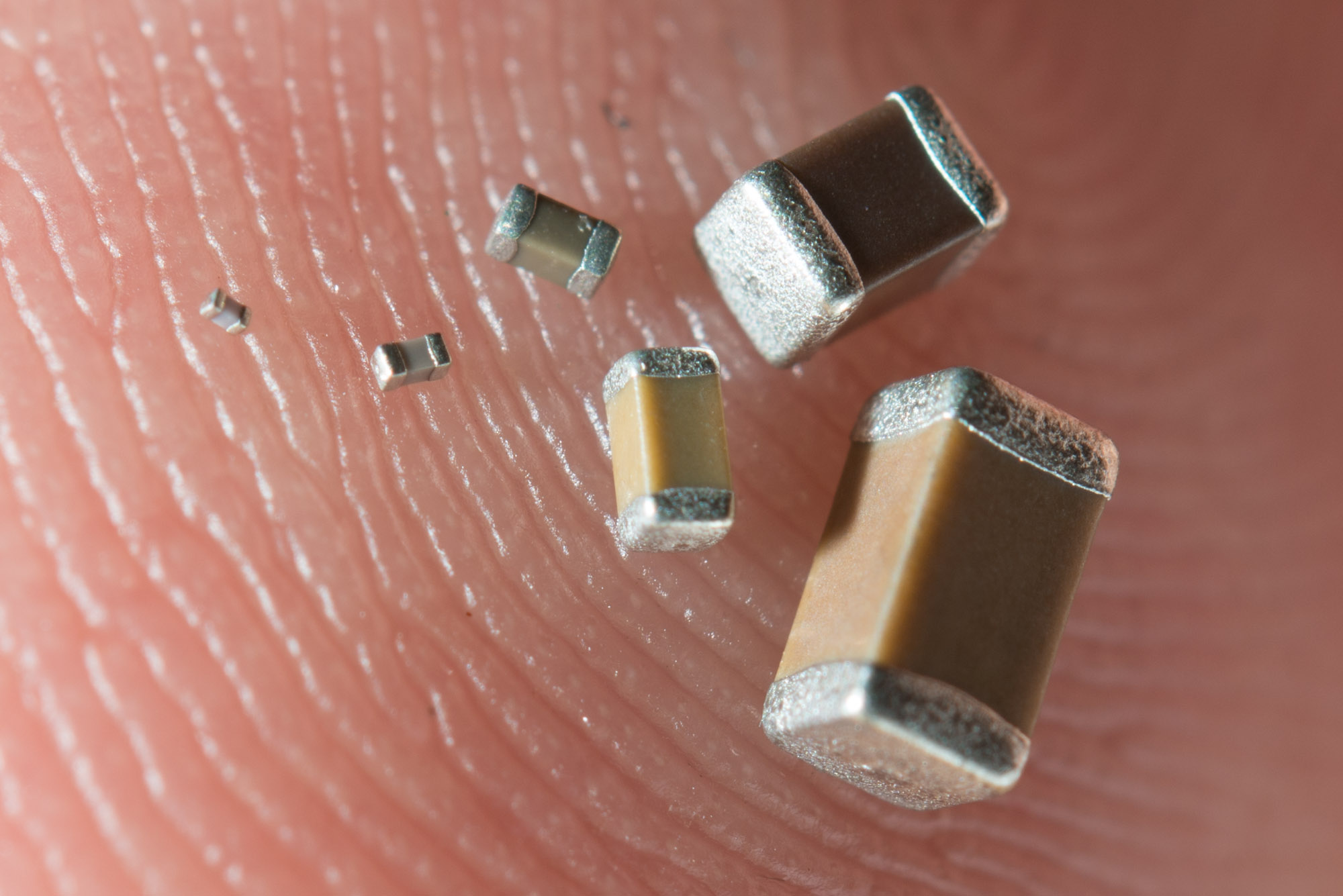 SMD capacitors on fingertip. Sizes (left to right): 01005, 0201, 0402, 0603, 0805 and 1206